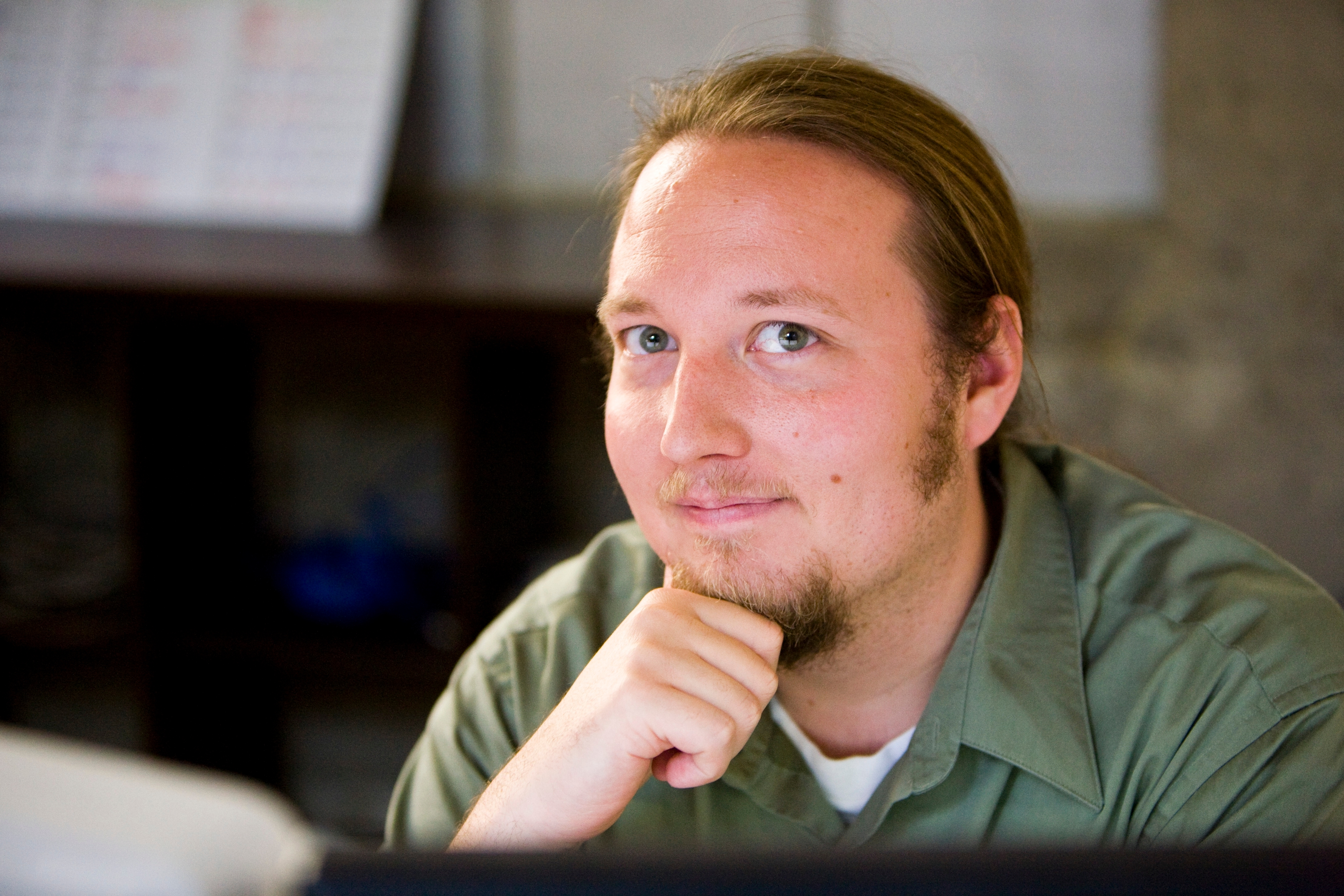 staff portrait of Brion Vibber